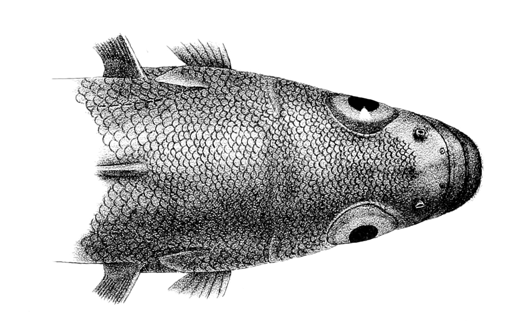 Notothenia trigramma